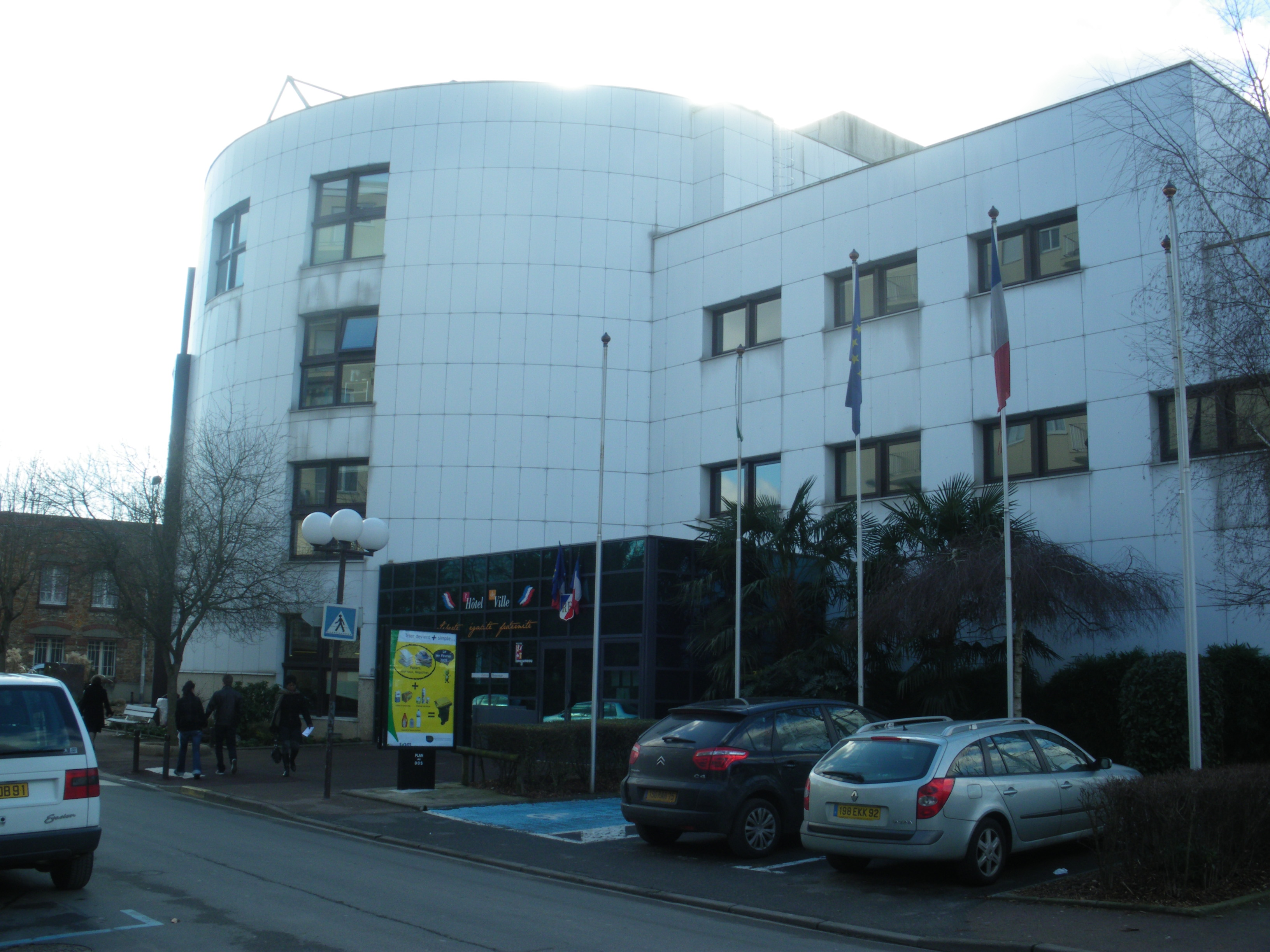 Town Hall in Longjumeau, Essonne, France